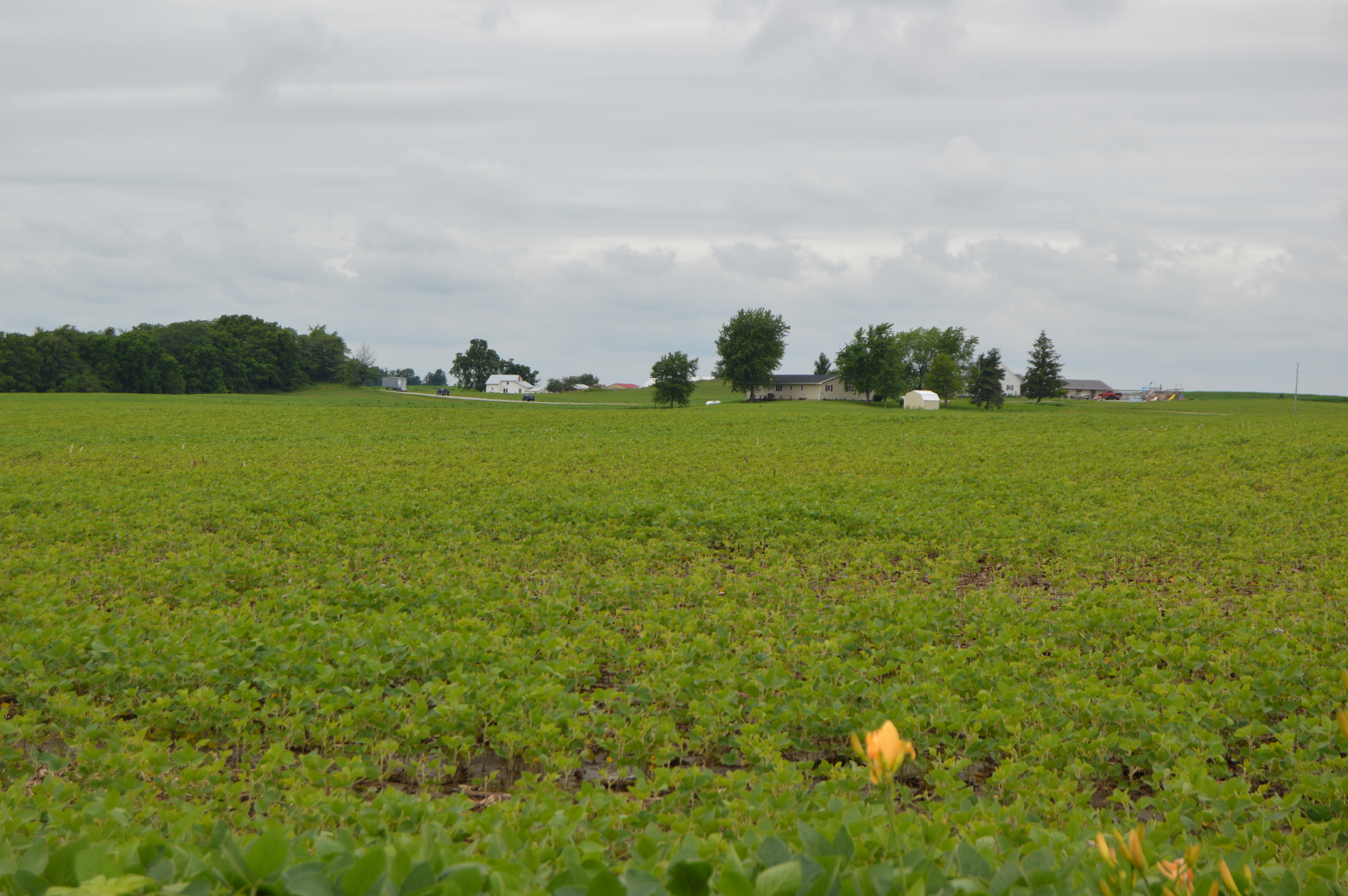 Looking northward from State Route 67 across soybean fields in far eastern Wayne Township, Auglaize County, Ohio, United States, a short distance west of Holden.